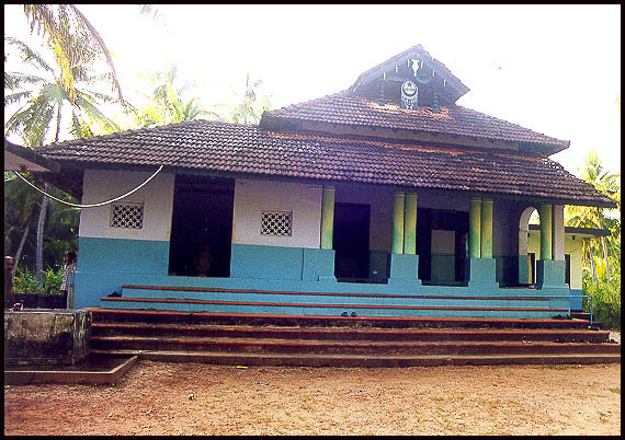 Utharam Masjid, also known as Utharam Palli, is a famous mosque situated at Ettammel, an attractive place inPuthiyangadi of Kannur District. It is managed by the Puthiyangadi Muslim Jamath committee. This Mosque was built hundreds of years ago,and it was reconstructed about 60 years ago. This mosque is situated in Puthiyangadi "ettammel" near to the Jama- ath high school.